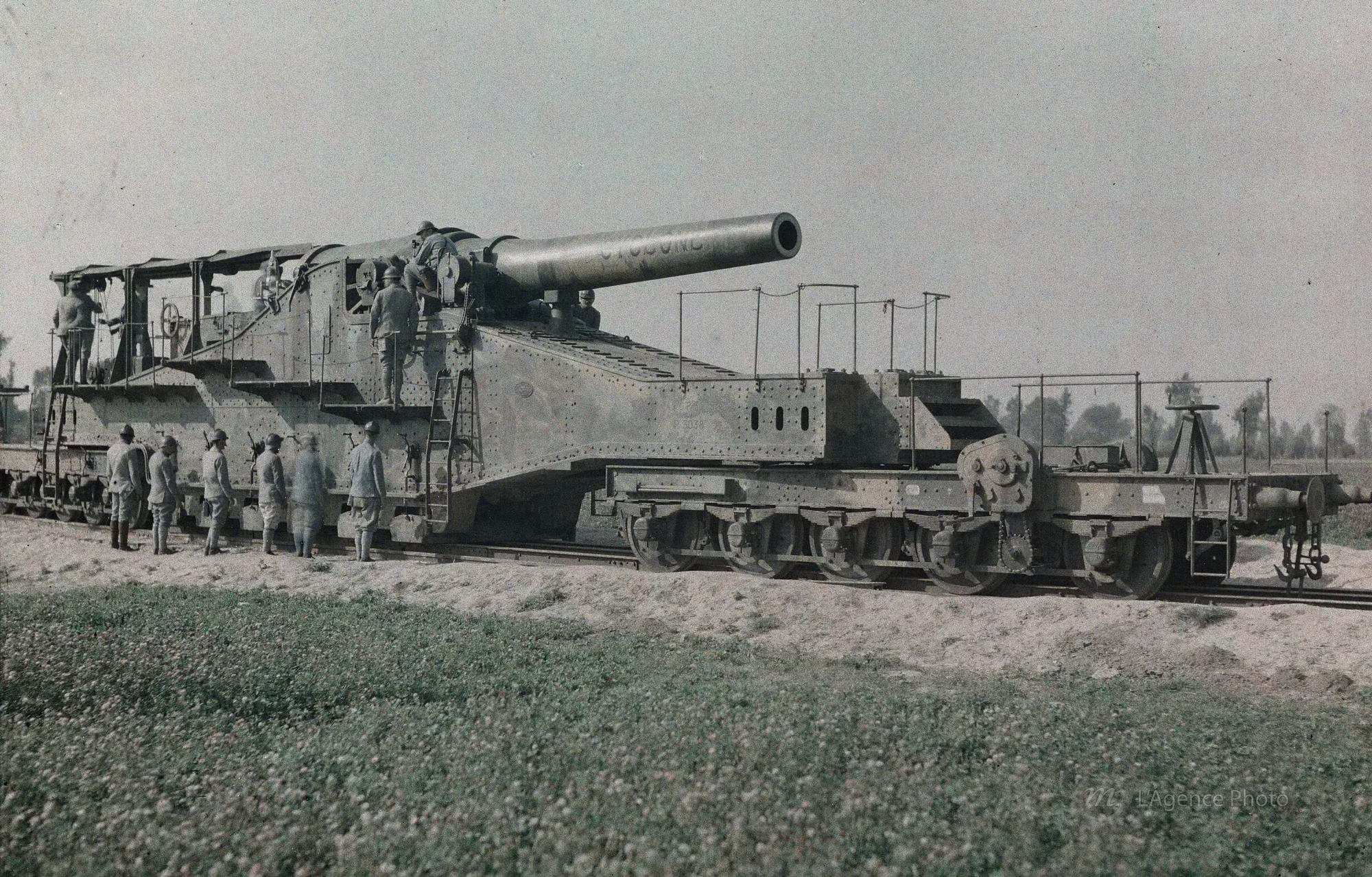 Photograph of French 320 mm railway gun Cyclone, taken in Hogstade, Belgium, 5 September 1917. This appears to be the 32 cm 25 calibres (i.e. shorter barrel) gun on 20-wheel "sliding carriage" rail mounting.